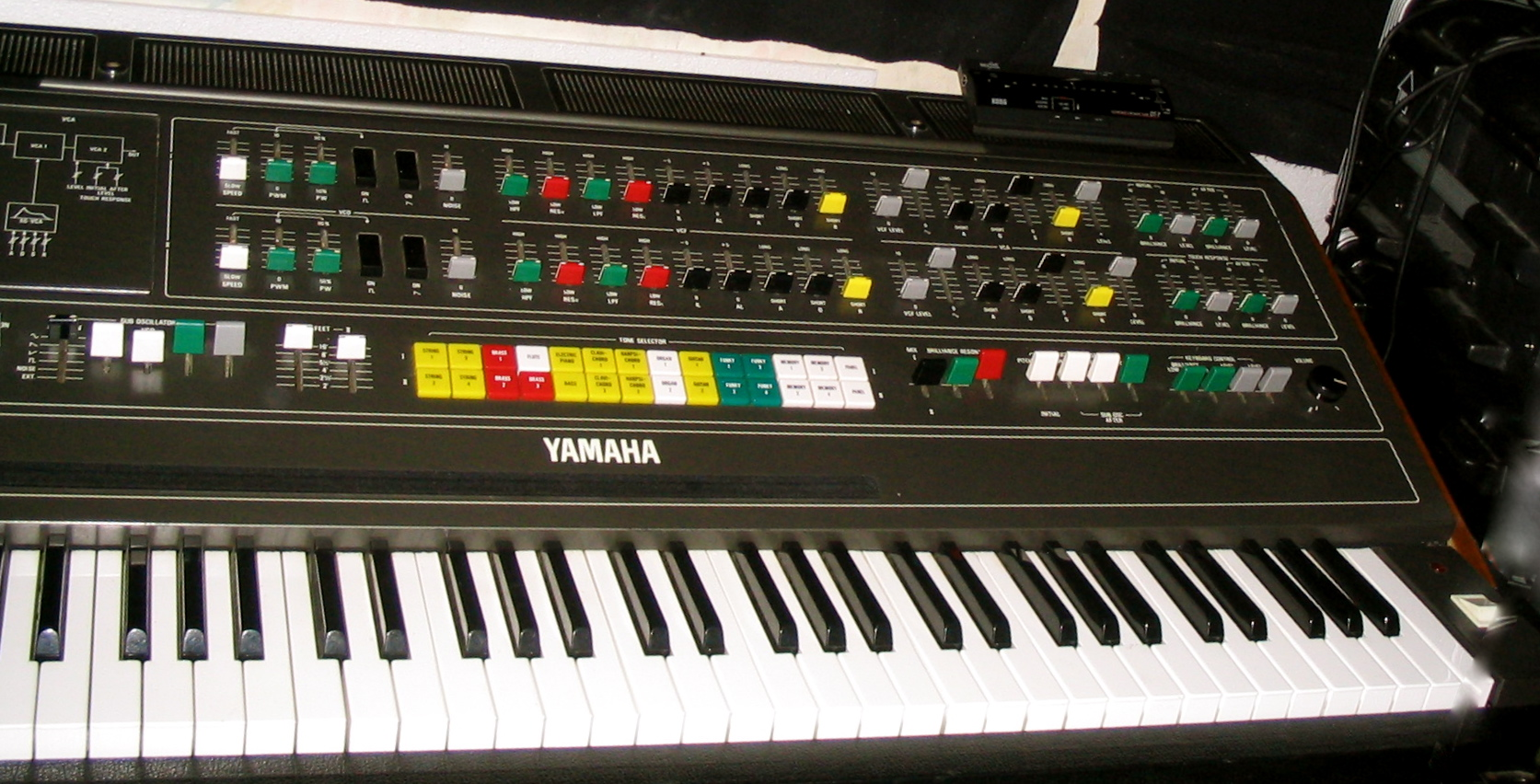 Yamaha CS-80 Polyphonic Synthesizer